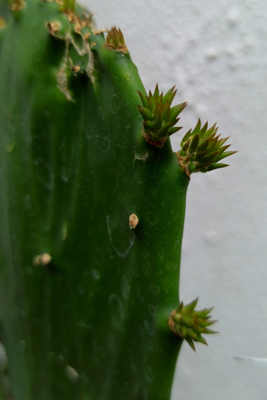 Buds of Opuntia cochenillifera (Familyː Cactaceae).